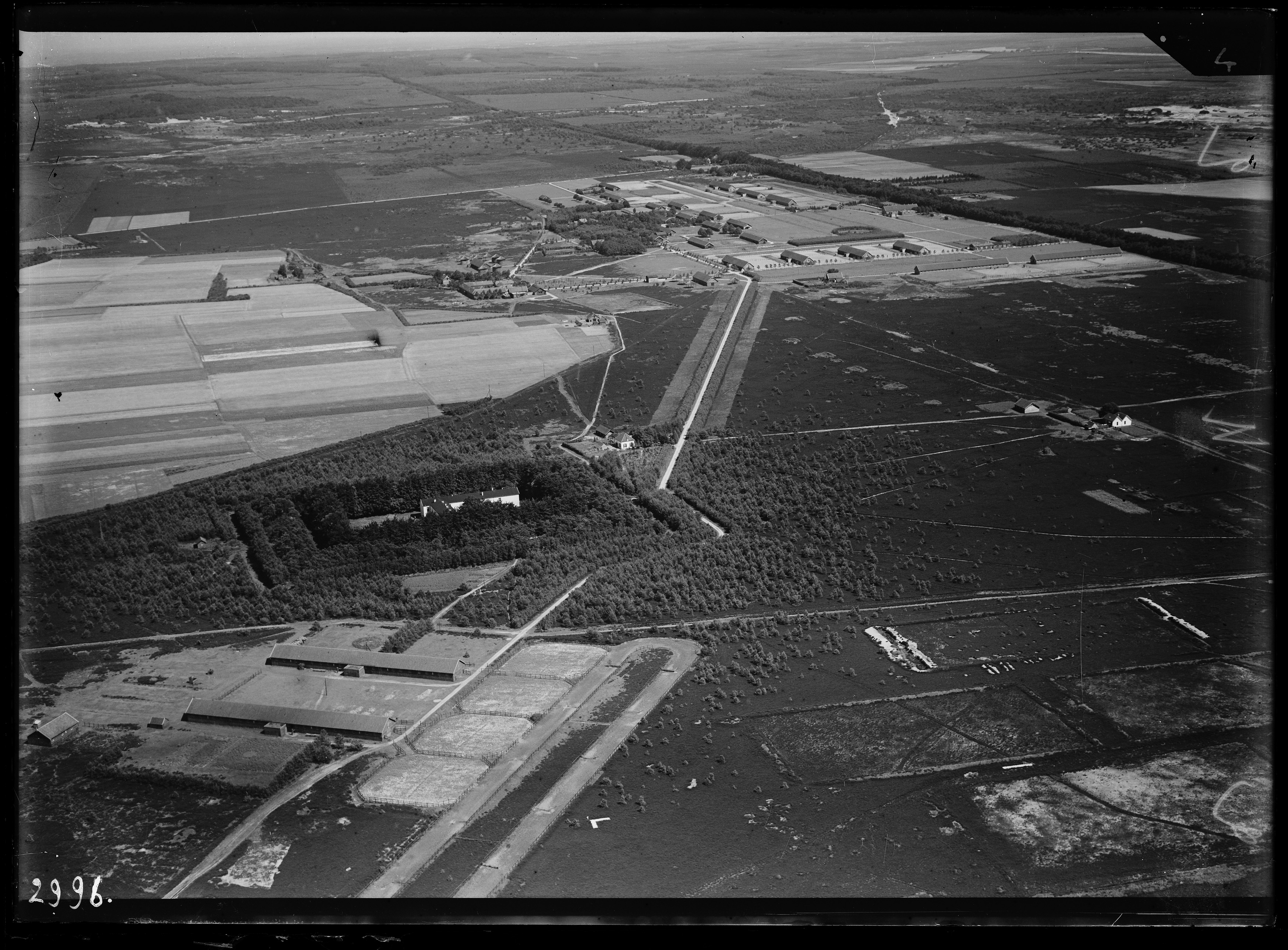 Aerial photograph of army barracks Nieuw-Milligen, Uddel, Apeldoorn, The Netherlands